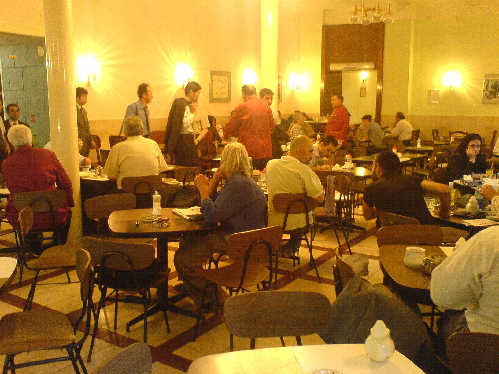 Photo by User:Hessam, Cafe Naderi, Tehran, Summer 2006